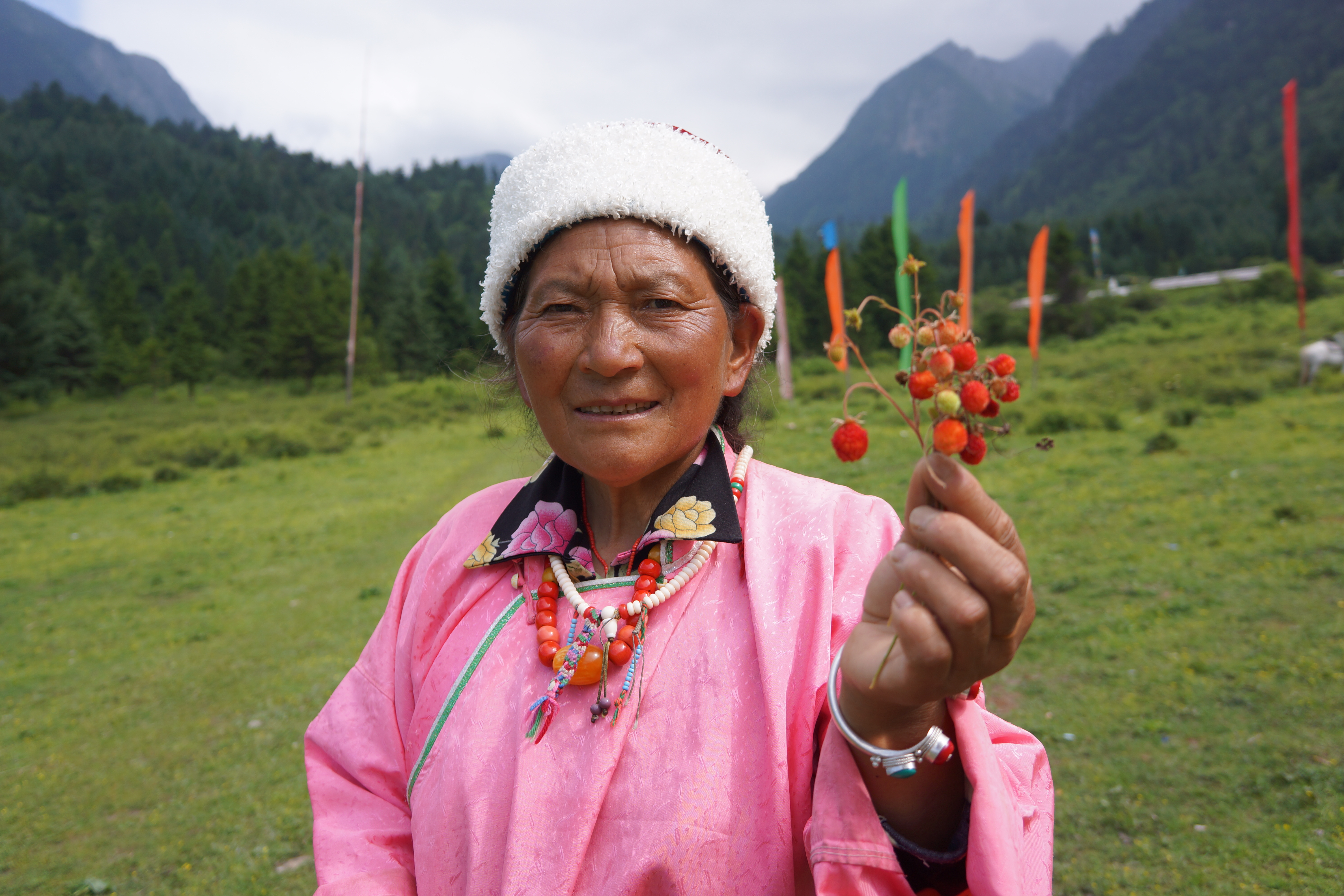 Old tibetan woman - Zhongchagou , Aba , Sichuan , China